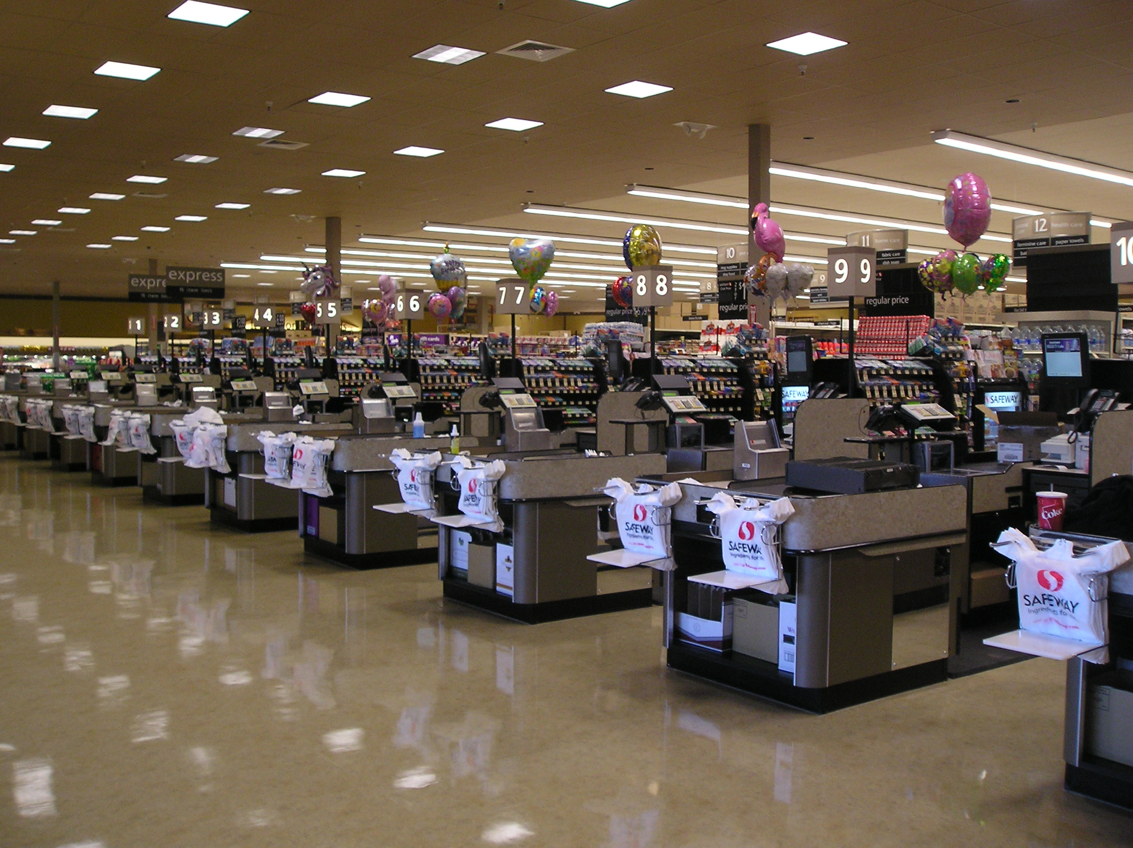 A Safeway before opening time. (This is NOT a UK Safeway store as original uploader log claims - see talk page).